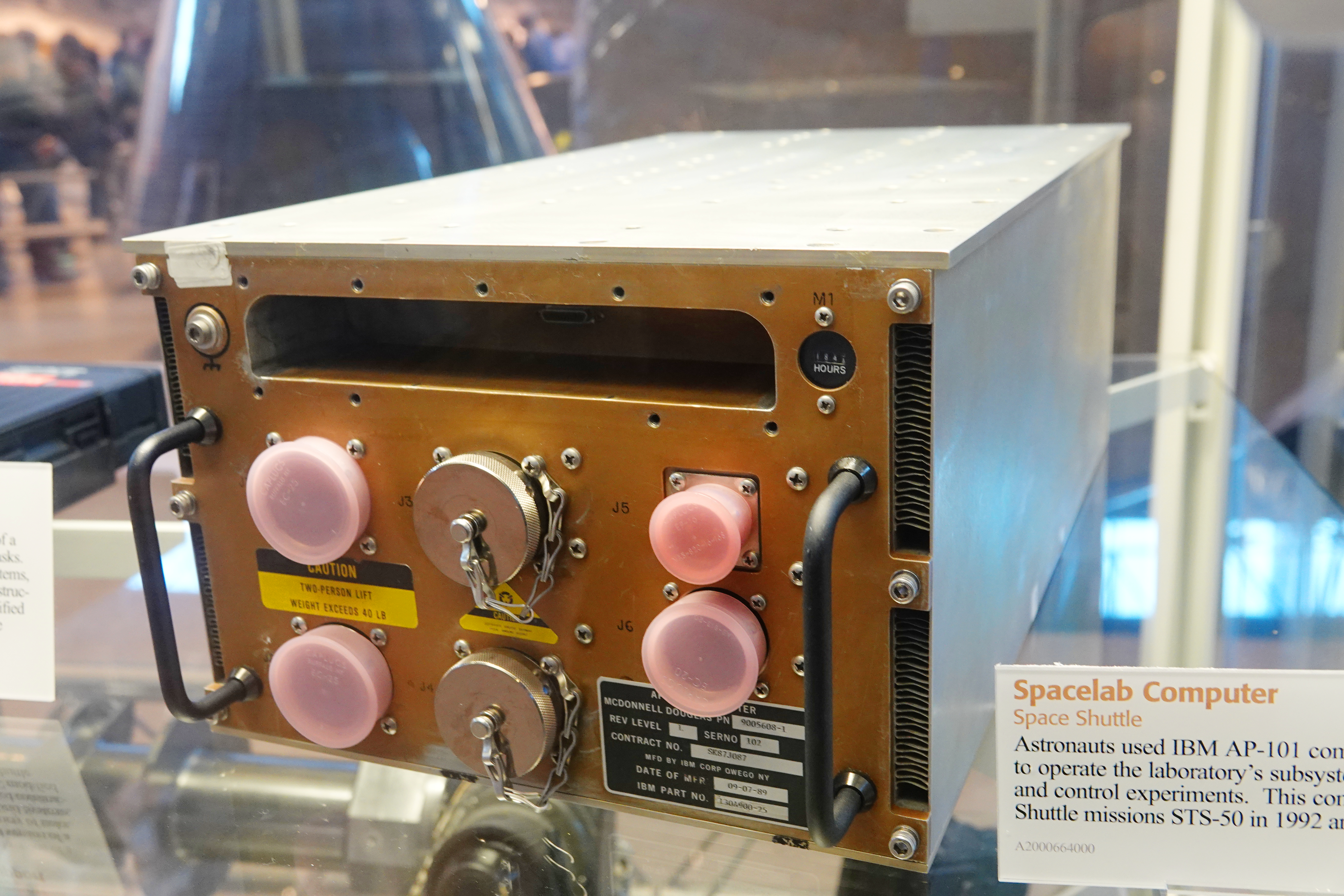 Astronauts used IBM AP-101 computers in Spacelab to operate the laboratory’s subsystems and to monitor and control experiments. This computer ﬂew on Shuttle missions STS-50 in 1992 and STS-73 in 1995. Picture taken at the National Air and Space Museum's Steven F. Udvar-Hazy Center in Chantilly, Virginia, USA.